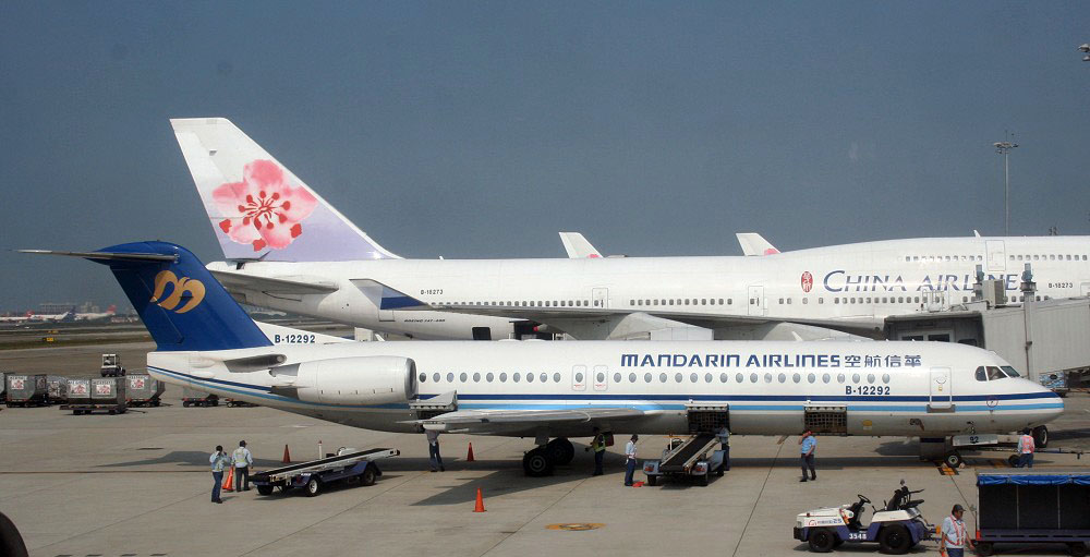 Fokker F100 "B-12292" - Mandarin Airlines - Taoyuan International Airport.